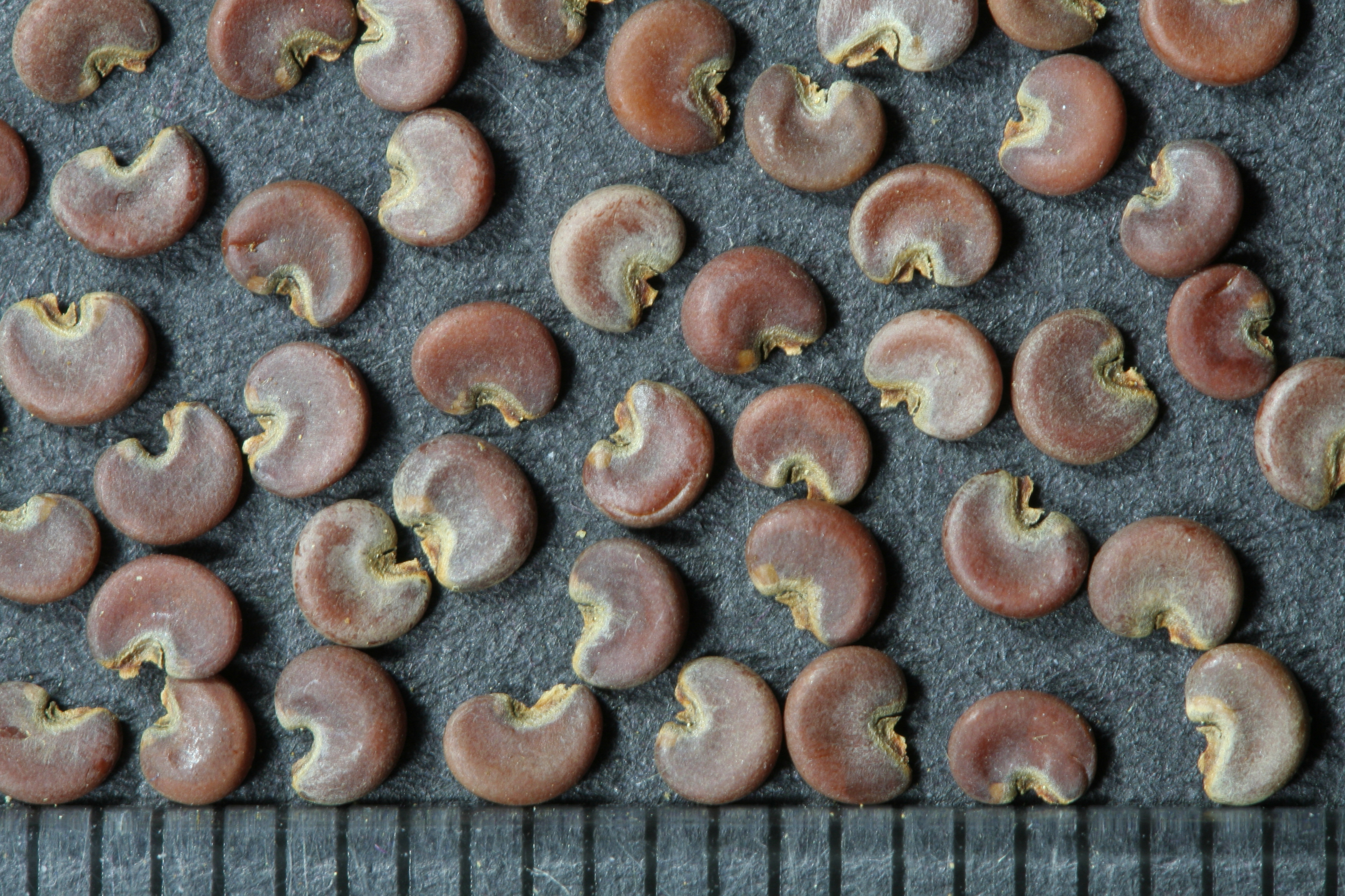 marsh mallow